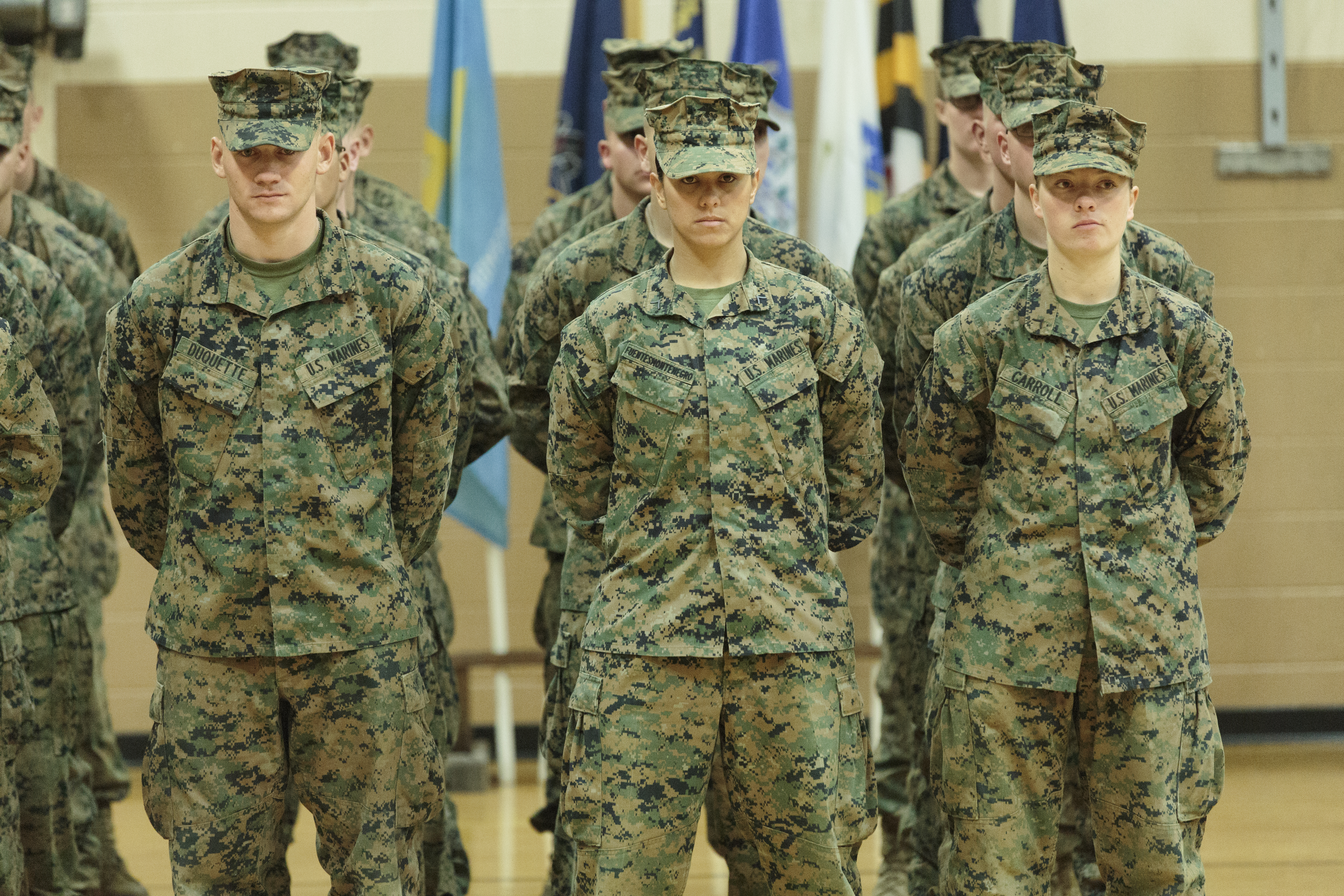 Pfc. Cristina Fuentes Montenegro, 25, one of the first three female Marine graduates from the School of Infantry-East's Infantry Training Battalion course, and native of Coral Springs, Fla., left, and Pfc. Julia Carroll, 18, one of the first three female Marine graduates from the School of Infantry-East's Infantry Training Battalion course, and native of Idaho Falls, Idaho, stand at the position of parade rest during the graduation of Delta Company, Infantry Training Battalion, School of Infantry-East at Camp Geiger, N.C. Nov. 21. The graduation of 227 students marked the first class of Marines to include females. The class was part of the Marine Corps' research effort toward integrating women into ground-combat military occupational specialties. (Official U.S. Marine Corps photo by Lance Cpl. Justin A. Rodriguez/Released)